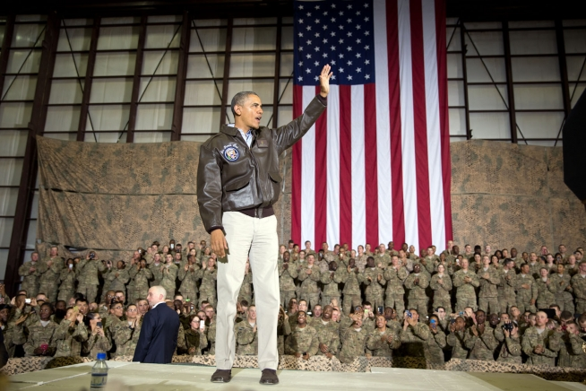 President Barack Obama waves at the conclusion of his remarks to U.S. troops at Bagram Airfield in Bagram, Afghanistan, Sunday, May 25, 2014. (Official White House Photo by Pete Souza)